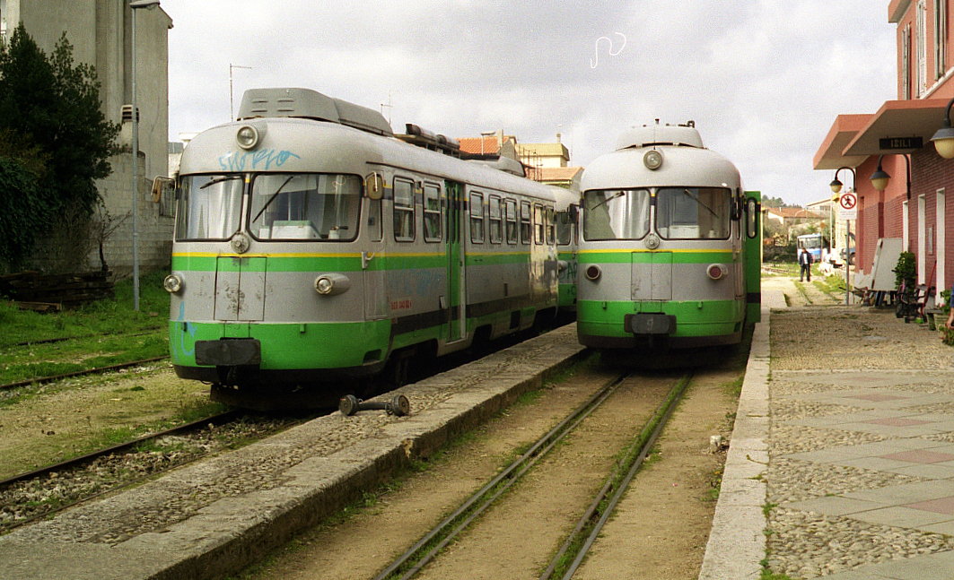 ADe railcars number 05 and 18 of Ferrovie della Sardegna inside the railway station of Isili, in Sardinia, Italy